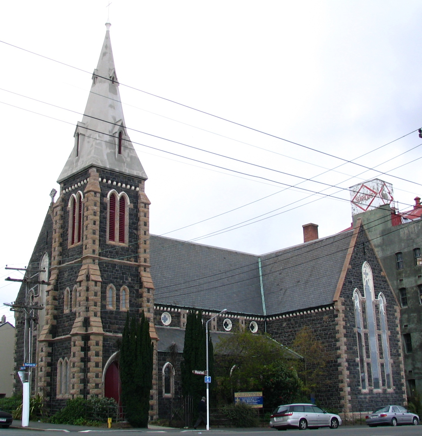 St. Matthew's Church, Dunedin, New Zealand